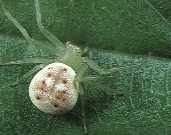 female Diaea subdola from Okinawa.